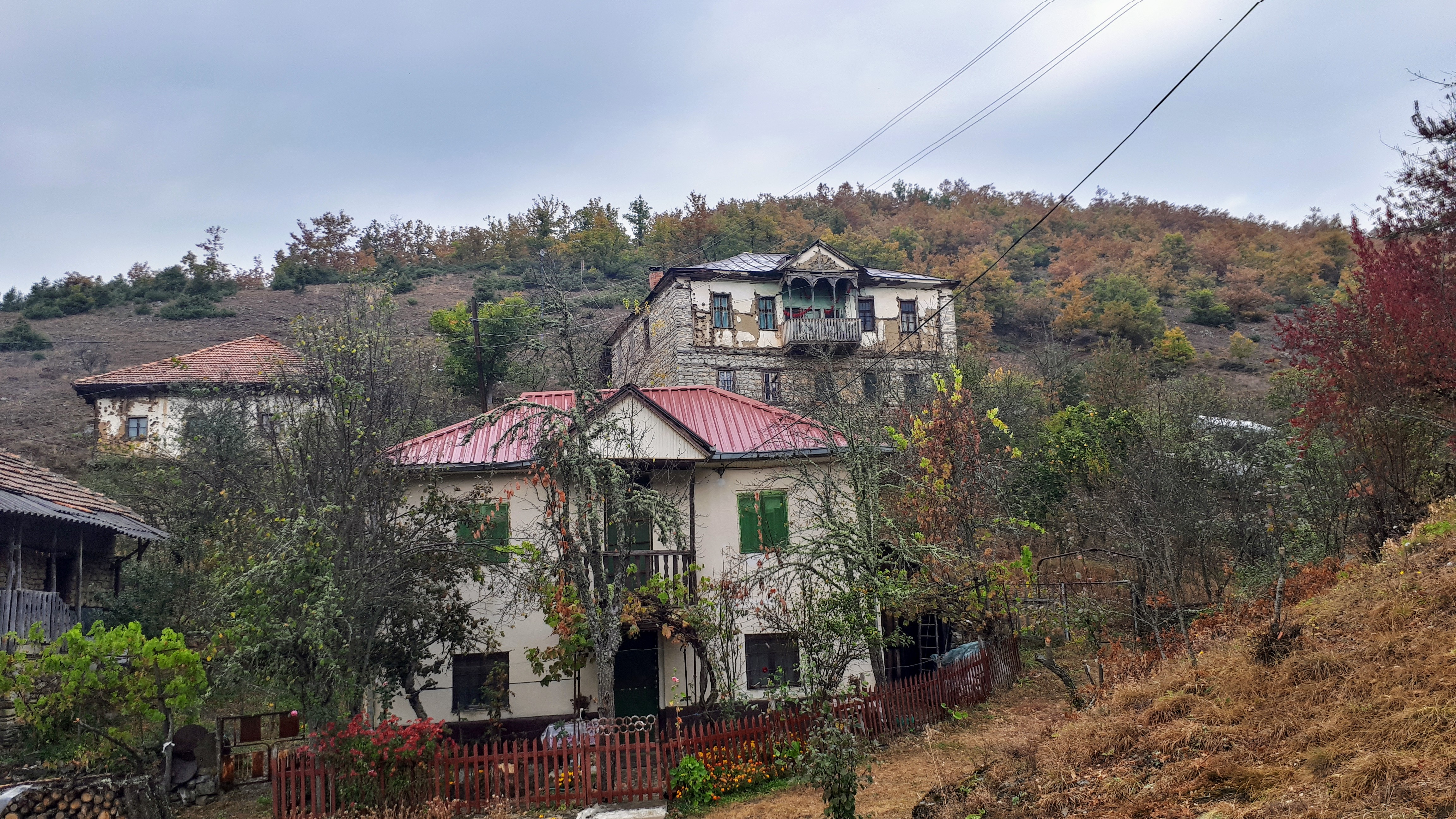 Houses in the village Kladnik